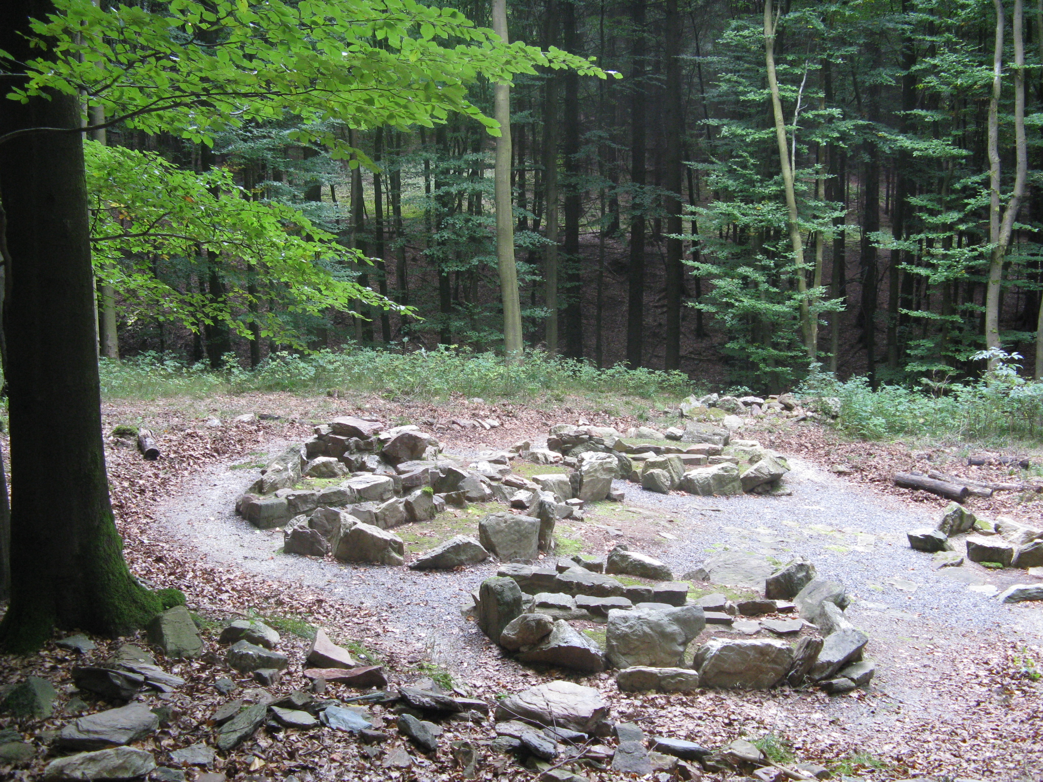 Medieval glass production facilities, Glashütten/Taunus (Germany)